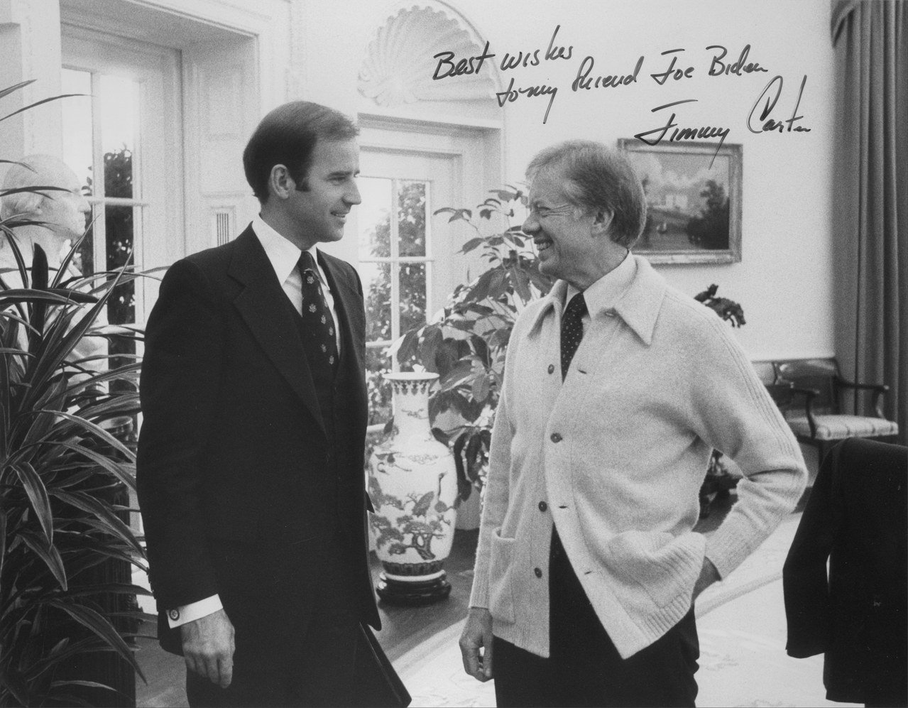 Senator and future Vice President Joe Biden and then President Jimmy Carter.